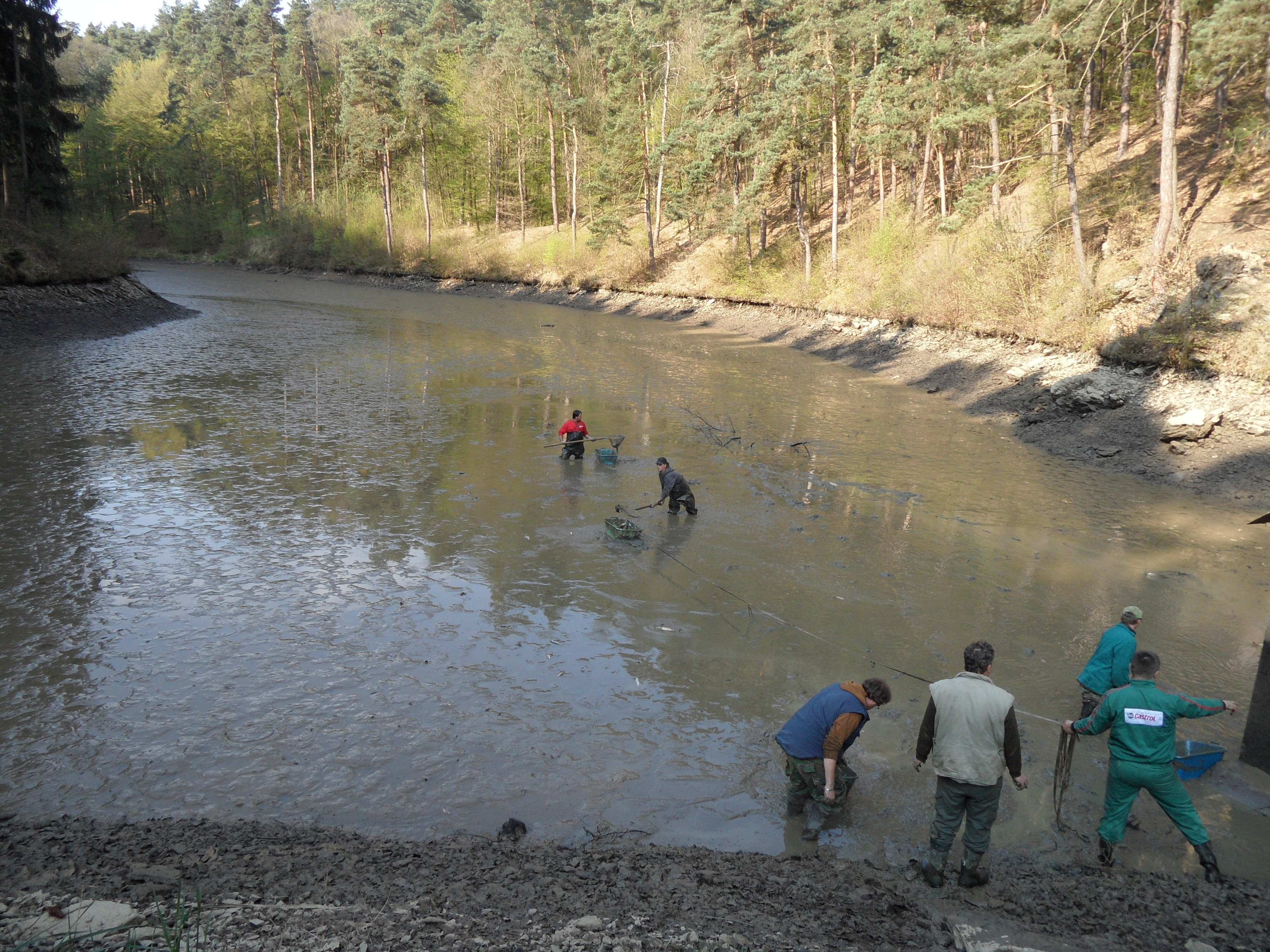 Medenický potok H1. Harvesting Pond, Kutná Hora District, the Czech Republic.